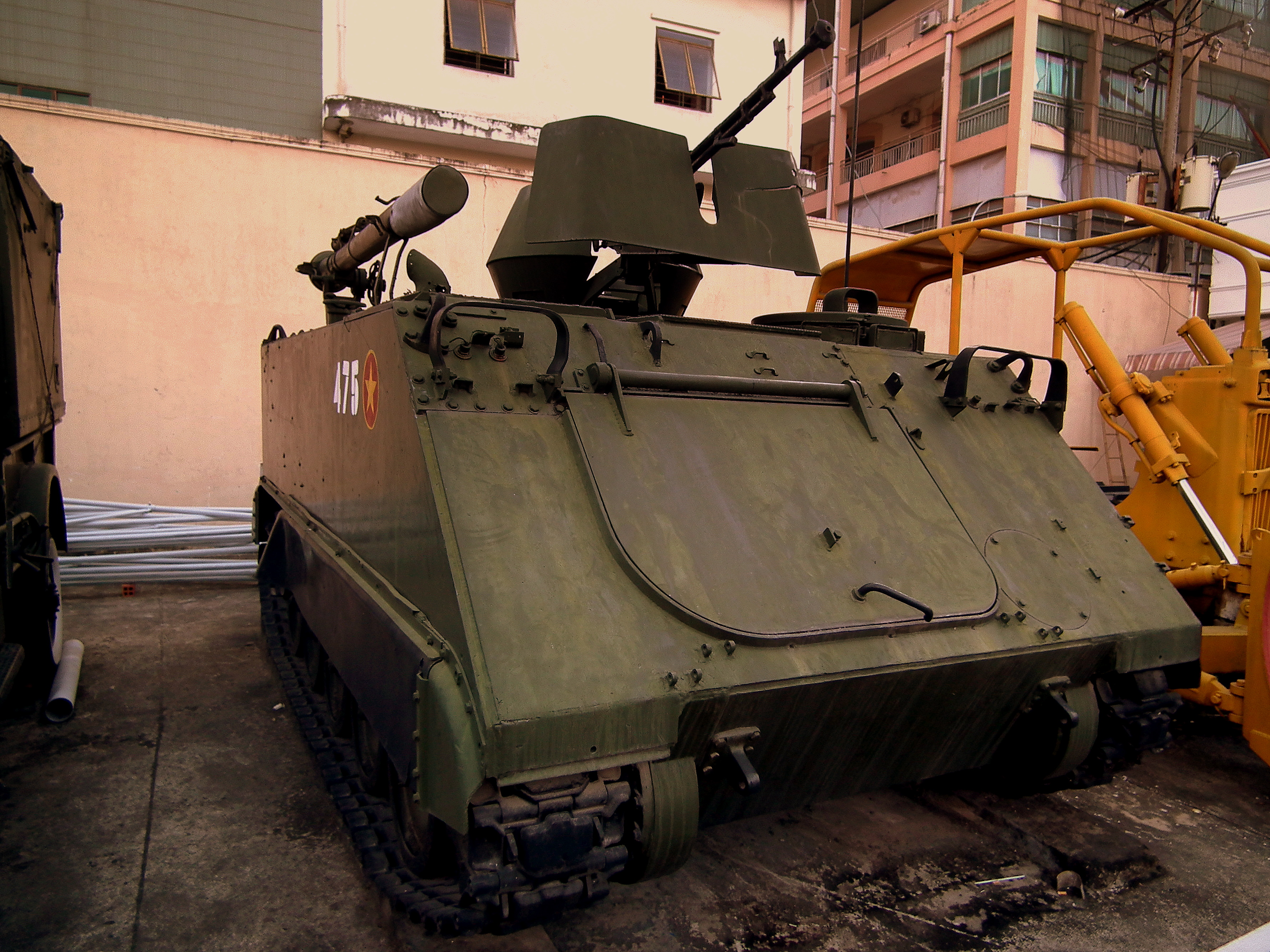 Vietnamese M113 in the Army Museum in Saigon.